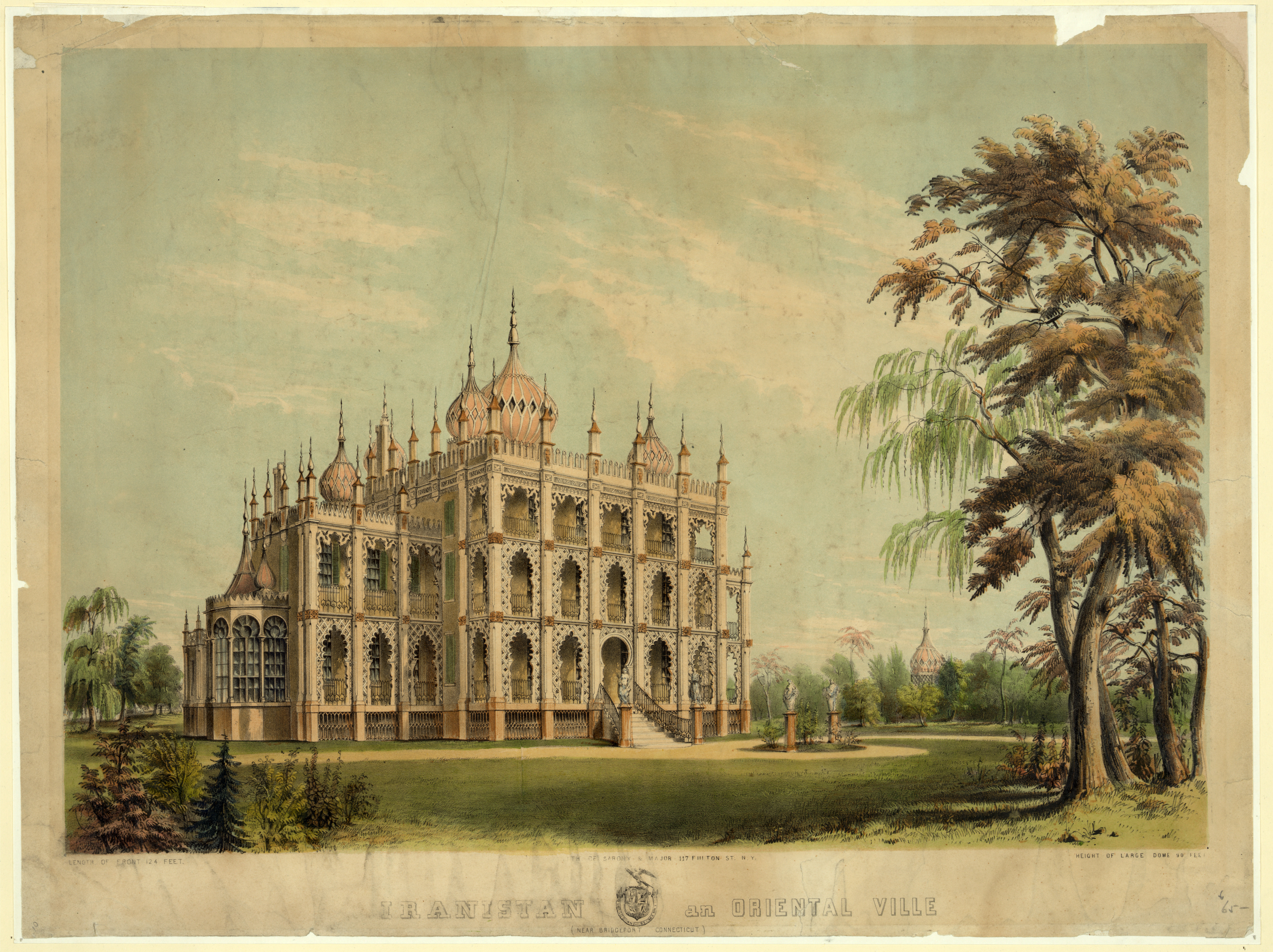 Iranistan, P.T. Barnum's house near Bridgeport, Connecticut.